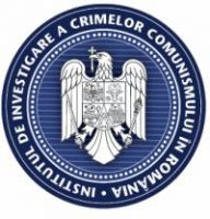 This is the official logo of the Institute for the Investigation of Communist Crimes in Romania, a governmnet body in Romania established in 2005.